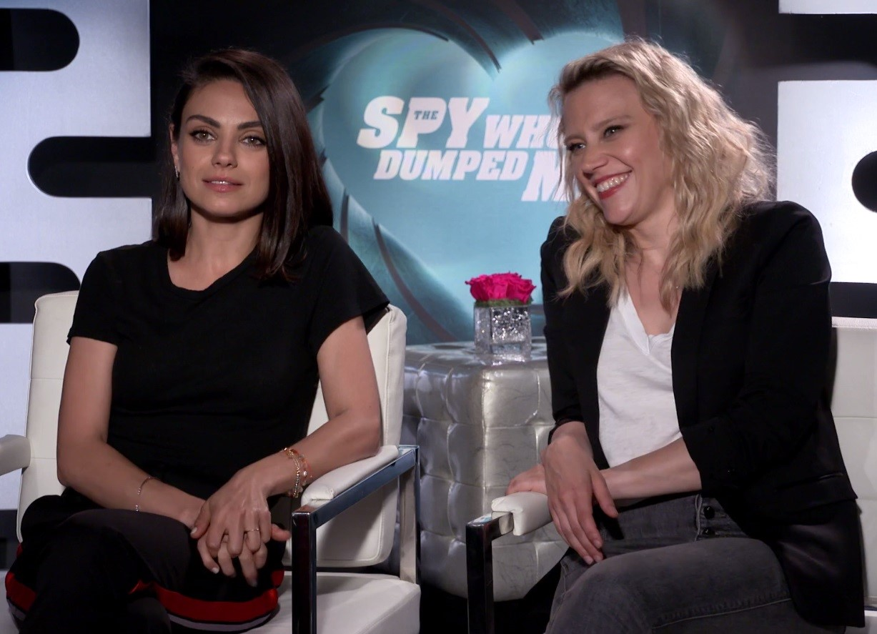 Mila Kunis and Kate McKinnon in an interview for ColliderVideo in 2018